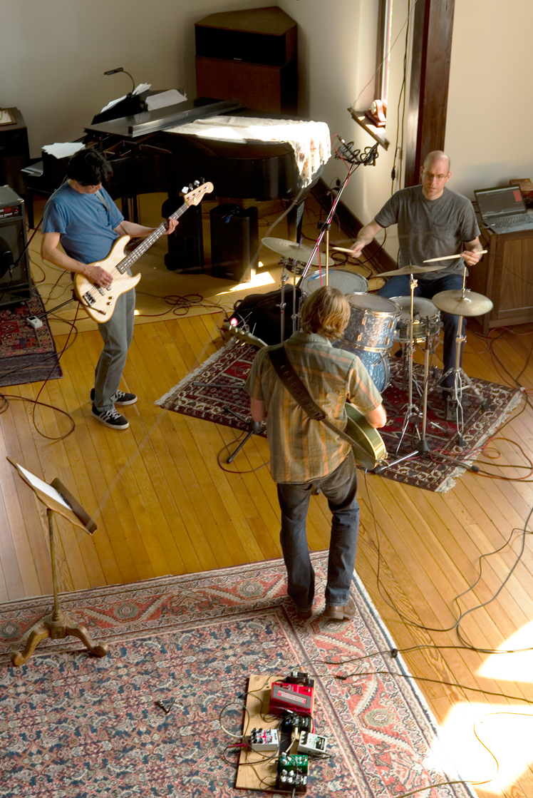 Stereo Donkey in rehearsal, in the former church that is guitarist Pat Wickline's home. Hiro Yamamoto (L), Pat Wickline (C), and Mike Bajuk (R). April 17, 2016.